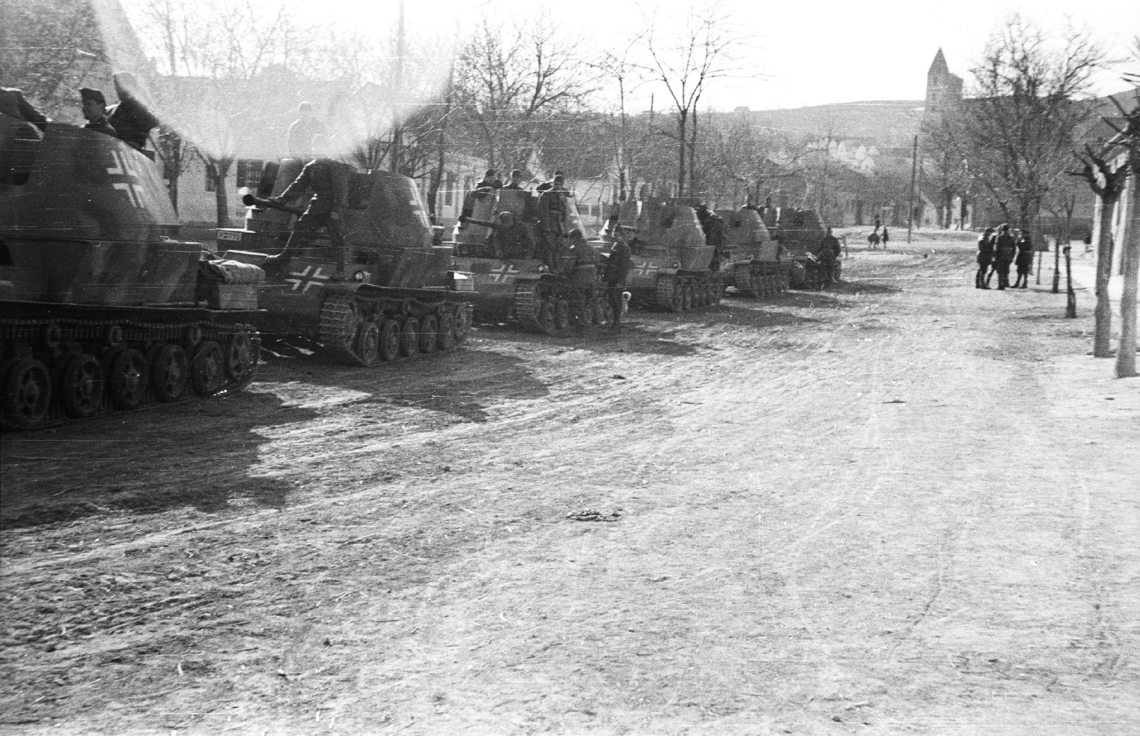 40M Nimróds anti-aircraft machine guns in marching column near Zsámbék. In the background is the Premonstratensian Monastery.